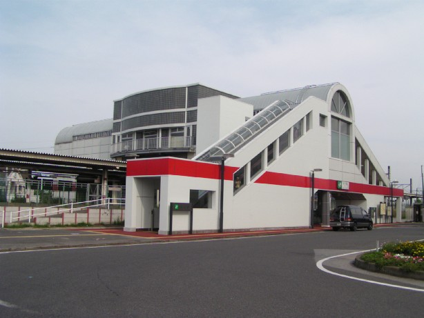 Fusa Station south exit, Abiko, Chiba Japan